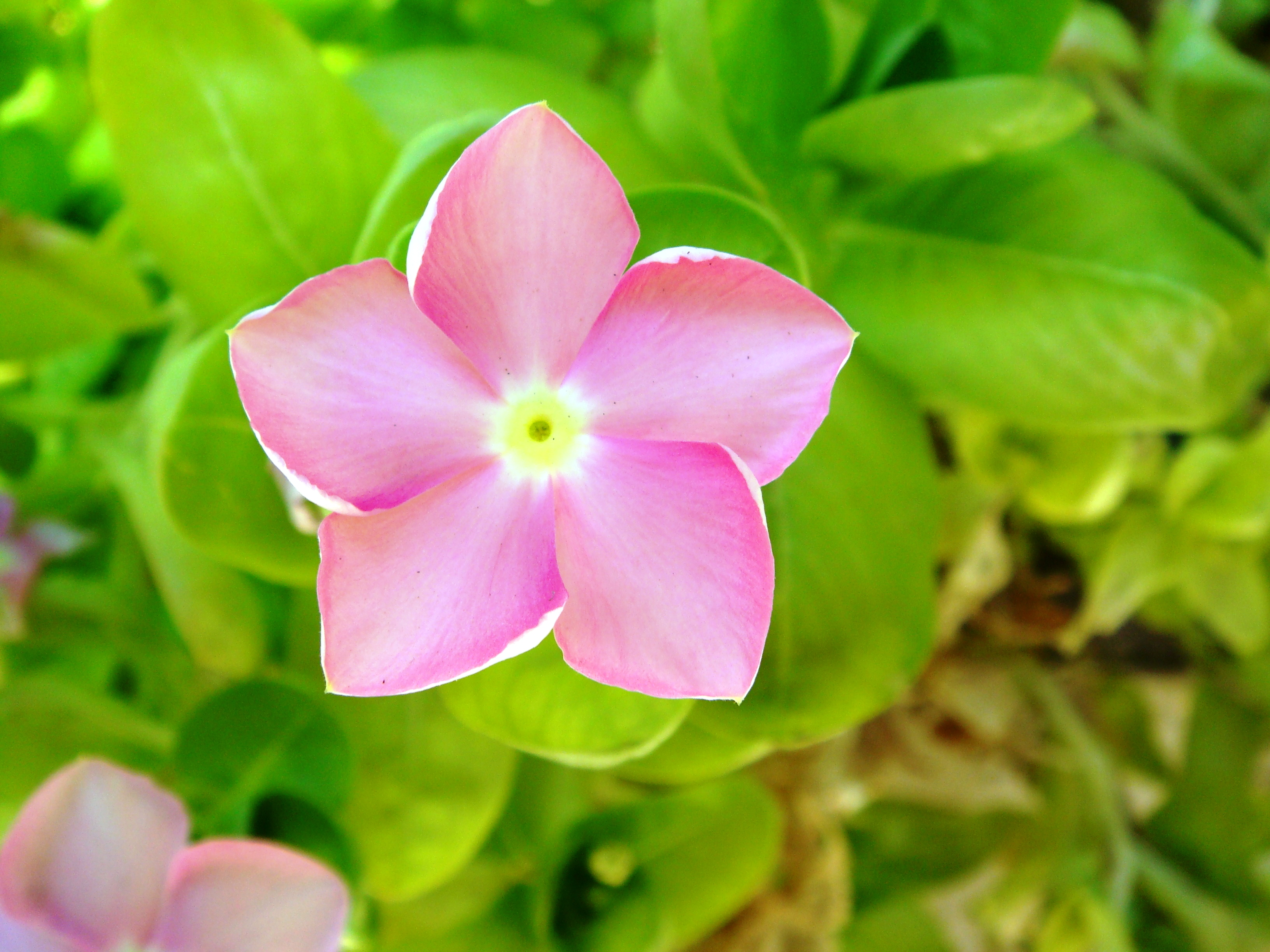 Catharanthus roseus, cultivated, Arizona State University, Tempe, Arizona